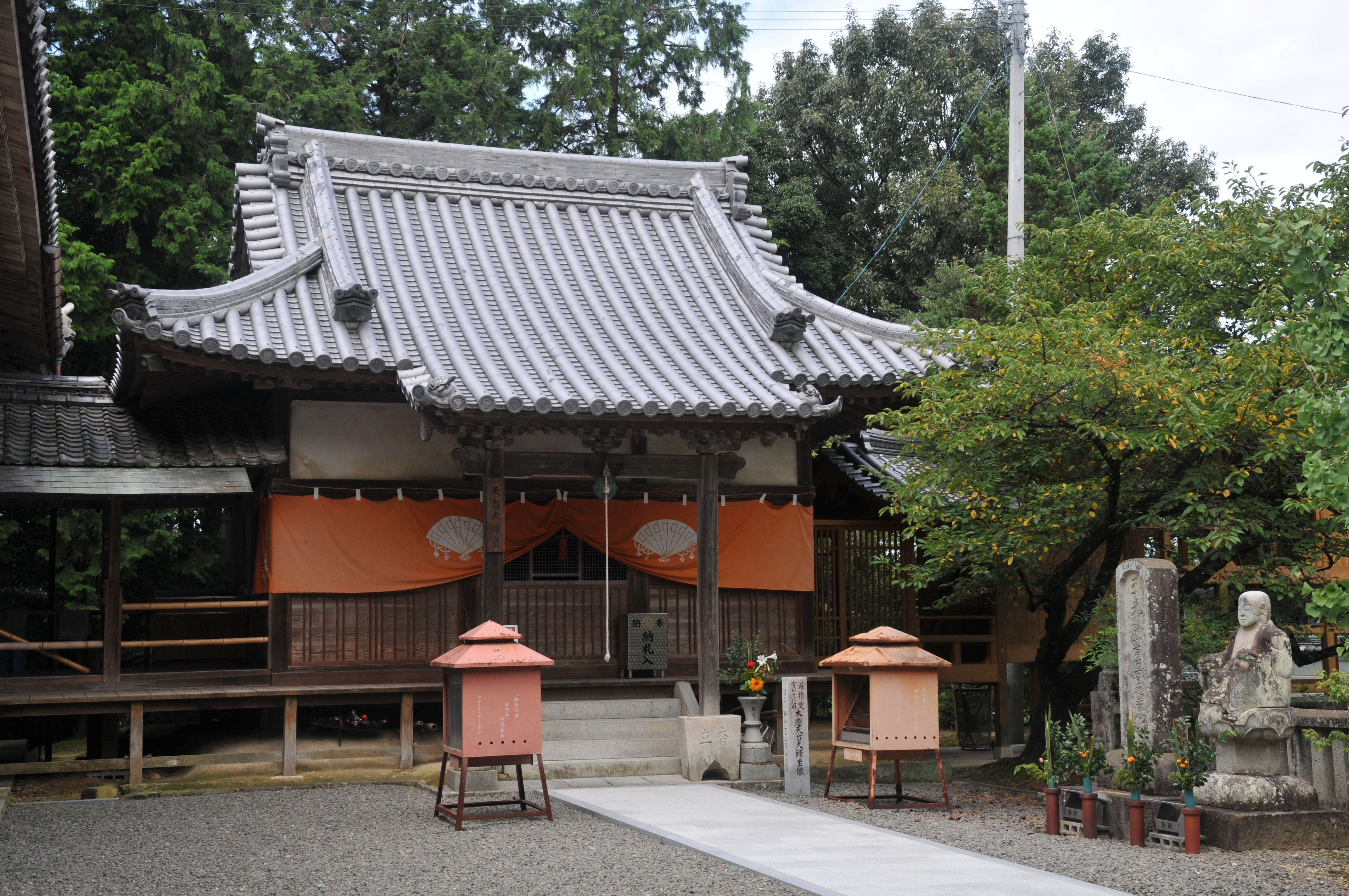 Tendai Daishi-dō, Daikō-ji